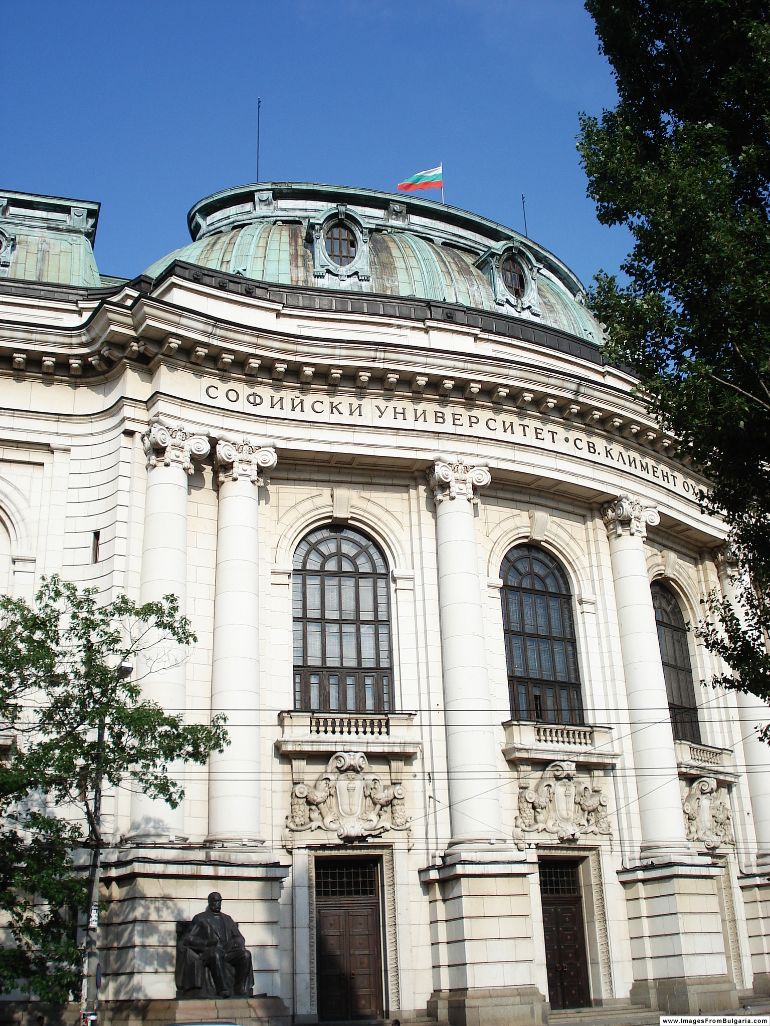 Sofia University